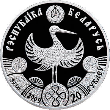 "Christening", Silver commemorative coins, denomination: 20 rubles.